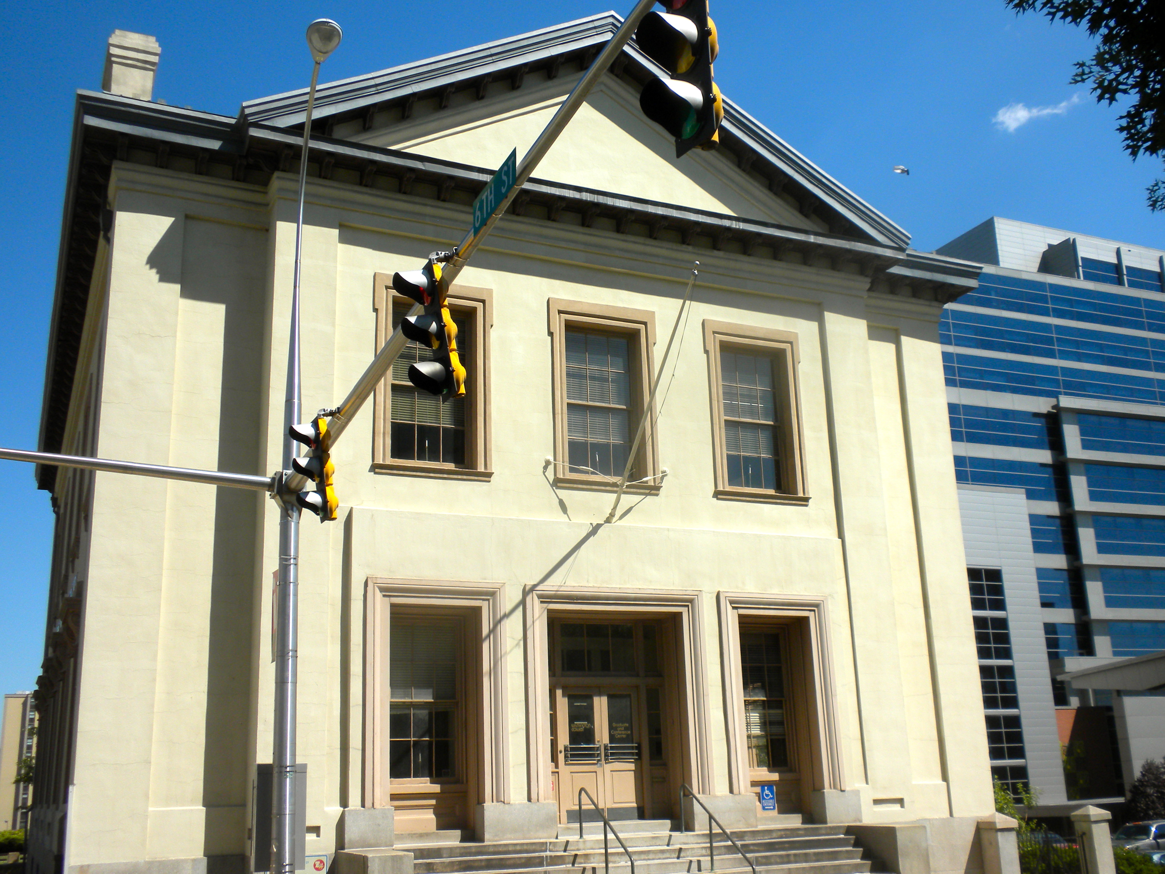 Old Customshouse on the NRHP since November 21, 1974. At 6th and King Sts., Wilmington, Delaware. A Wilmington University building now. Near all the court buildings